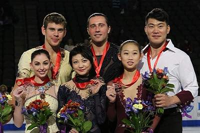 The pair skating at the 2014 Skate America. From left: Haven Denney / Brandon Frazier (2nd), Yuko Kavaguti / Alexander Smirnov (1st), Peng Cheng / Zhang Hao (3rd).